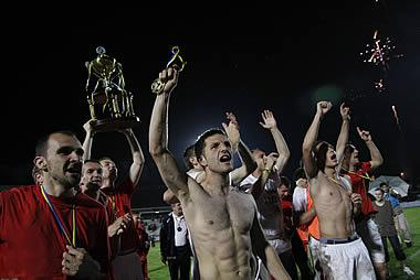 HŠK Zrinjski Mostar - winner of Football Cup of Bosnia and Herzegovina 2008. Bijeli Brijeg Stadium, West Mostar